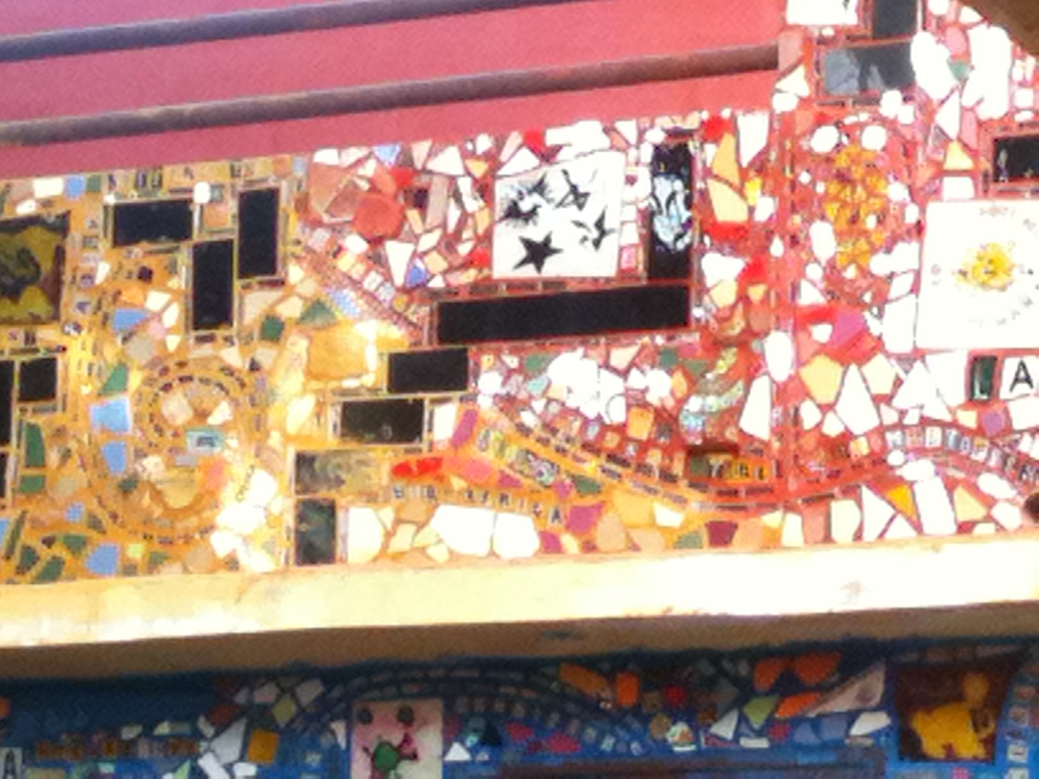 Kan-Si, Murales, Kër Thiossane, Dakar, 2012. Photo by Iolanda Pensa.